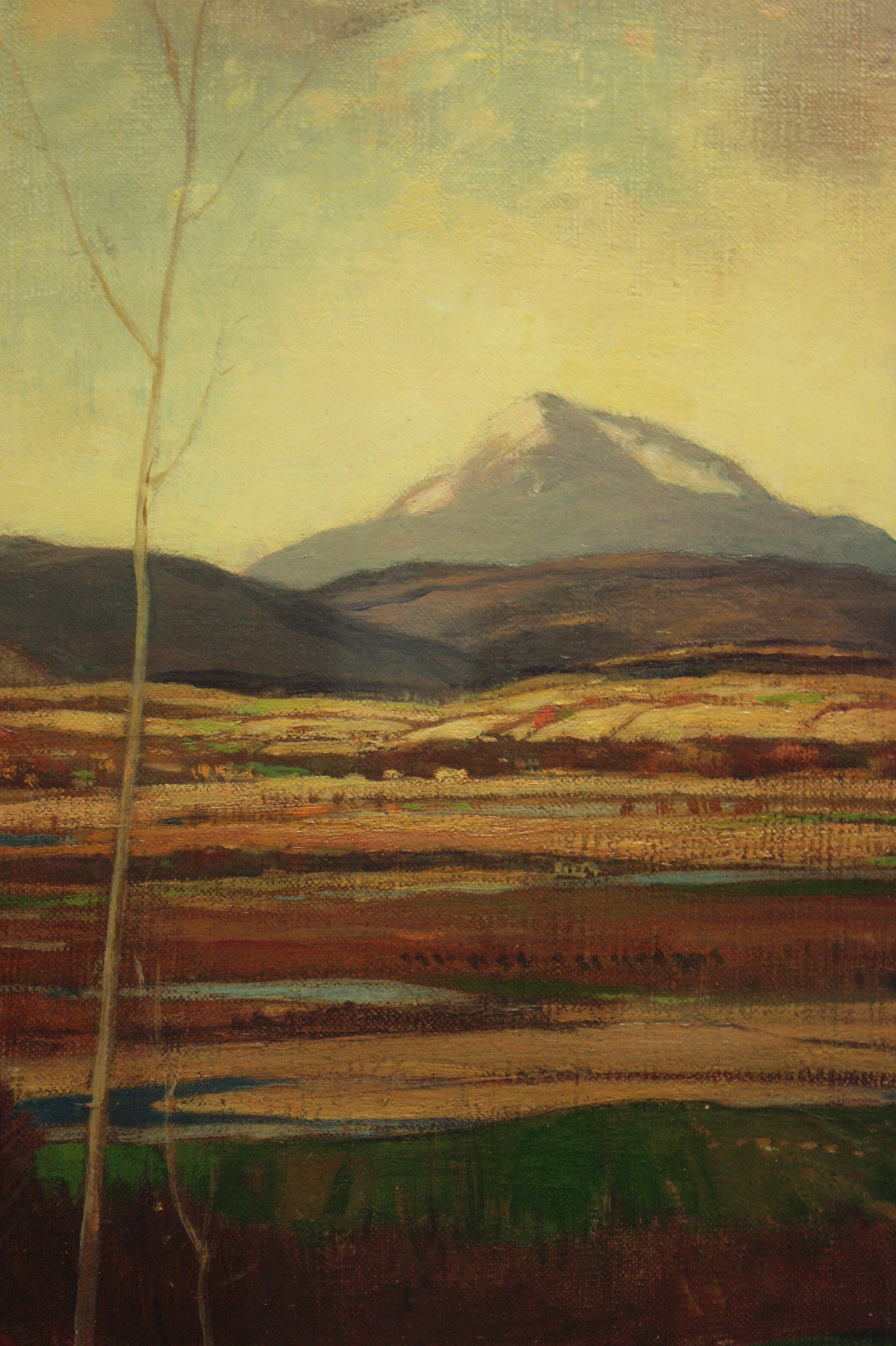 Ben Ledi by David Young Cameron